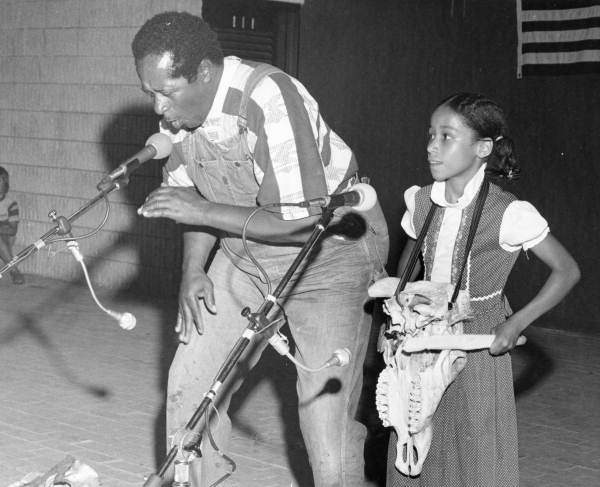 Local call number: fa3830 Title: Banjoist and bones player Abner Jay performs with child - White Springs Date: ca. 1978 Physical descrip: 1 photoprint - b&w - 8 x 10 in. Series Title: Folklife Collection Repository: State Library and Archives of Florida, 500 S. Bronough St., Tallahassee, FL 32399-0250 USA. Contact: 850.245.6700. Persistent URL